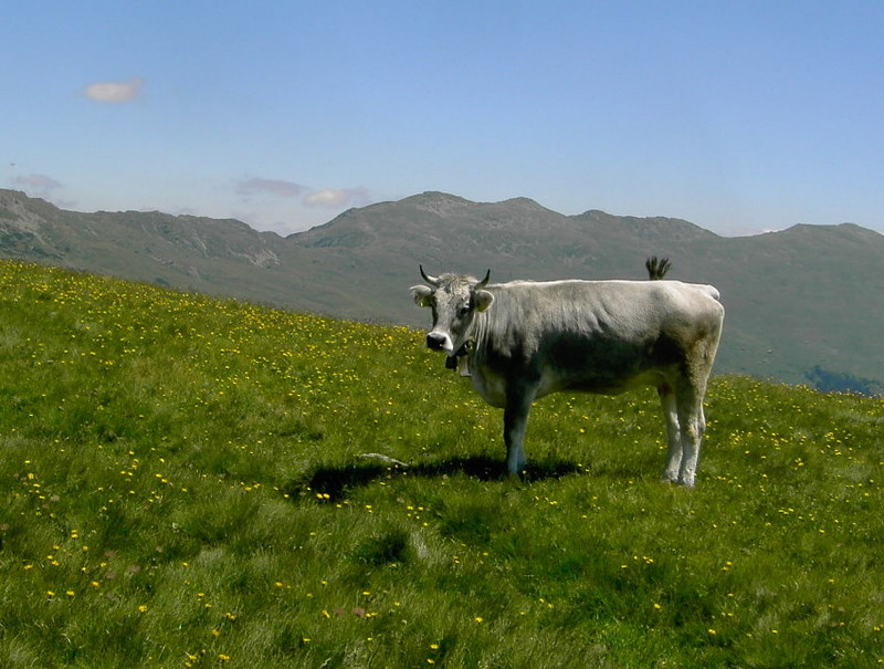 Tyrolese Grey Cattle